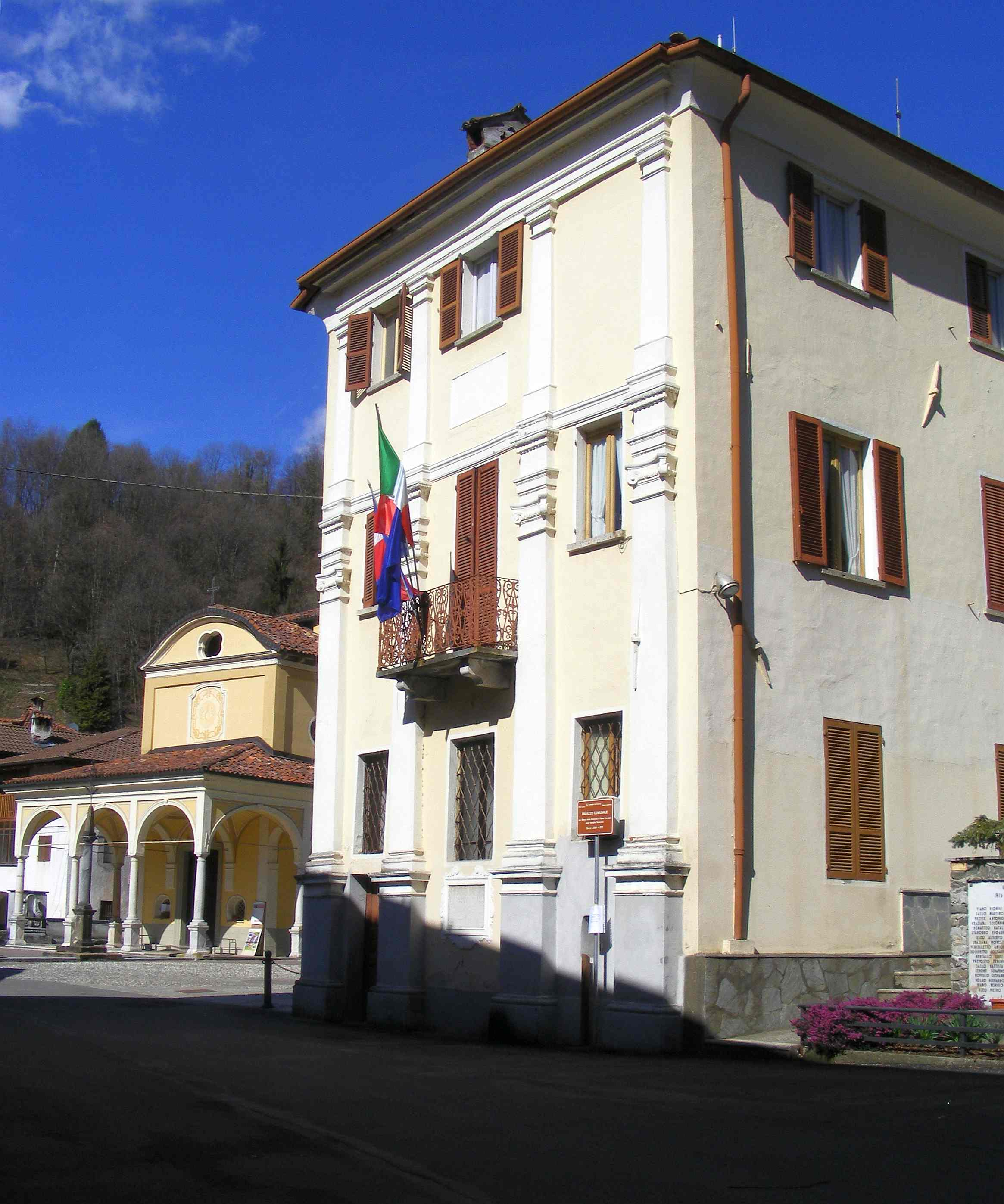 Postua (VC, Italy): town hall